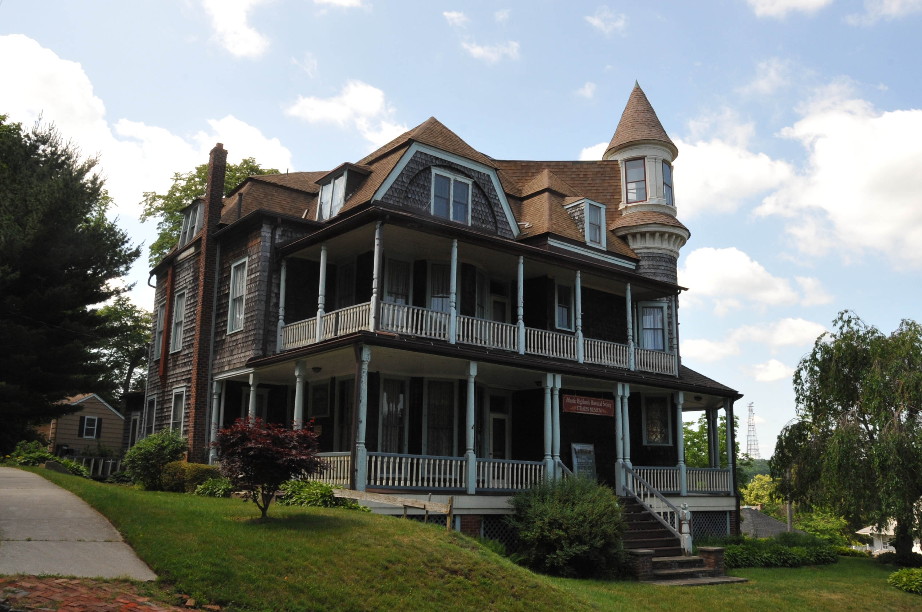 AKA STRAUSS MANSION IN ATLANTIC HIGHLANDS;1893; USED AS A SUMMER COTTAGE BY ADOLPH STRAUSS, A NEW YORK IMPORTER AND MERCHANT. THE HOUSE IS ON A HIGH HILL THAT OVERLOOKS SANDY HOOK BAY; VICTORIAN IN QUEEN ANNE STYLE